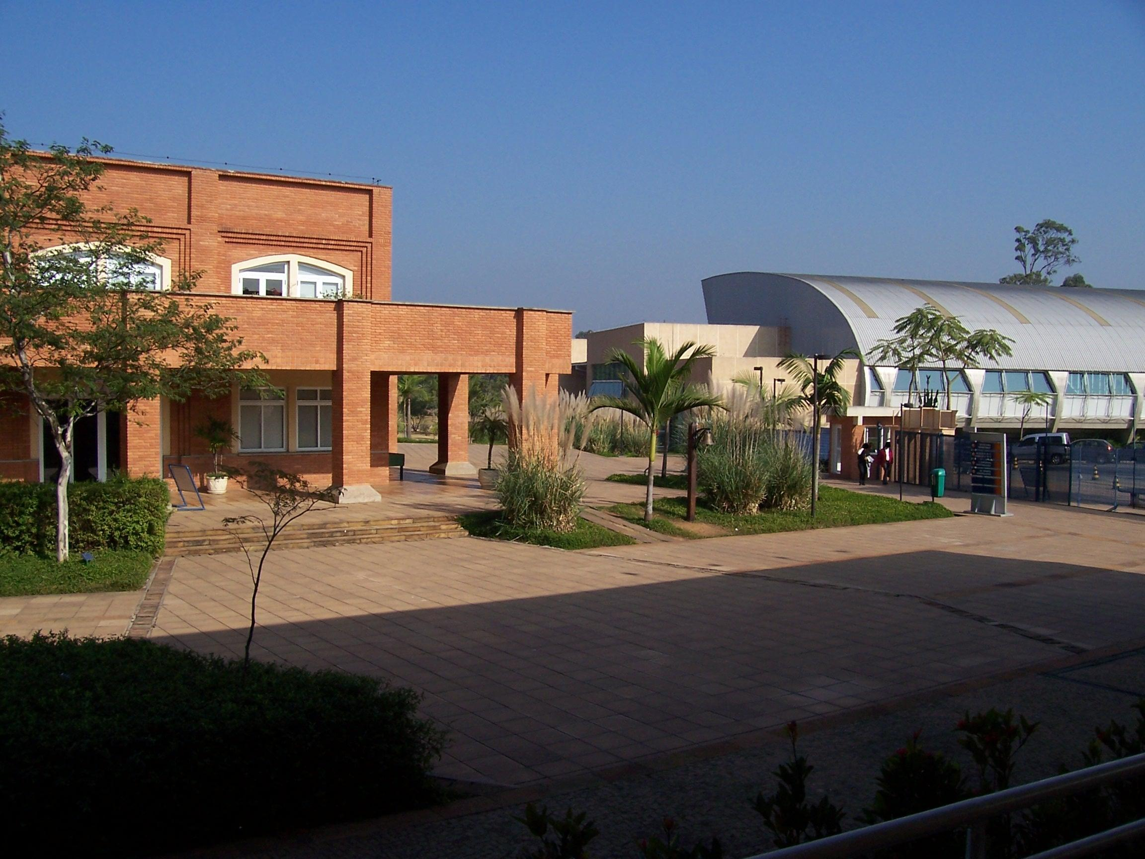 Colégio Humboldt (Humboldt High School)